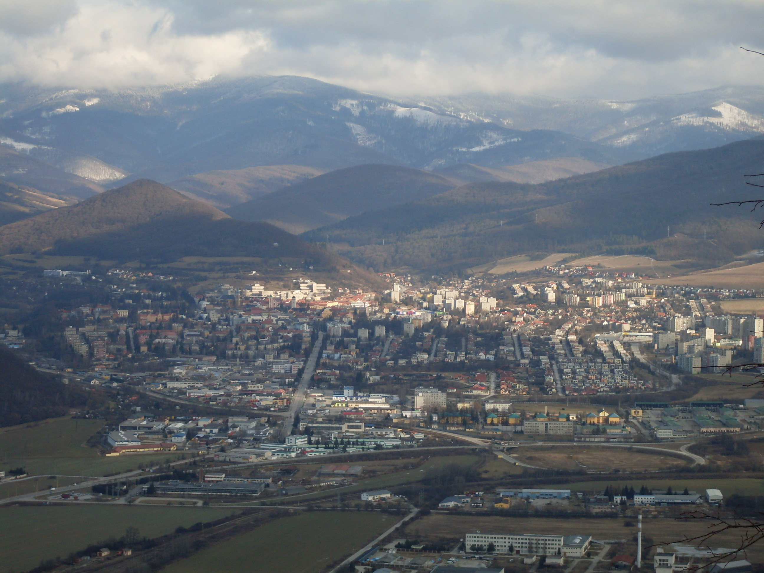 Brzotinske rocks (Slovak Karst)